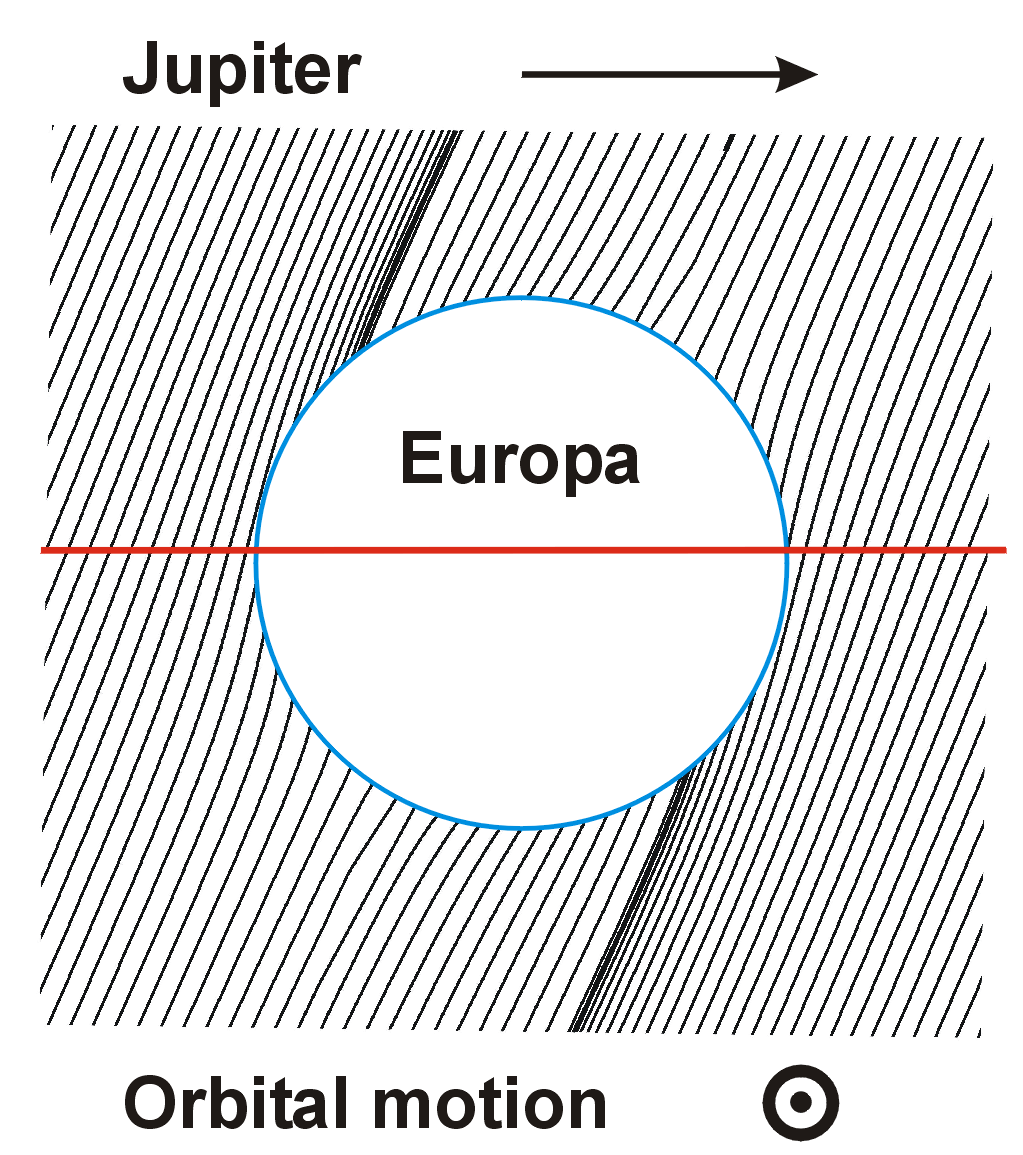 The image depicts magnetic field around Jovian moon Europa. The field consists of the Jovian stationary field, Jovian varying field and Europa induced field. The bending of the field lines around Europa is evident, indicating an existence of an electrically conducting layer in the interior of the moon. The field lines shown in the image were calculated based on the magnetic field data available from the scientific literature.[1][2]. The red line shows a trajectory of the Galileo spacecraft during a typical flyby (E4 or E14). This image was created for the Europa (moon) article. ↑ a b Zimmer, C.; Khurana, K. K. (2000). "Subsurface Oceans on Europa and Callisto: Constraints from Galileo Magnetometer Observations". Icarus 147: 329–347. ↑ a b Kilveson, M.G.; Khurana, K.K.;Stevenson, D.J. (1999). "Europa and Callisto: Induced and intrinsic fields in a periodically varying plasma environment". J. of Geophys. Res. 104: 4609-4625.